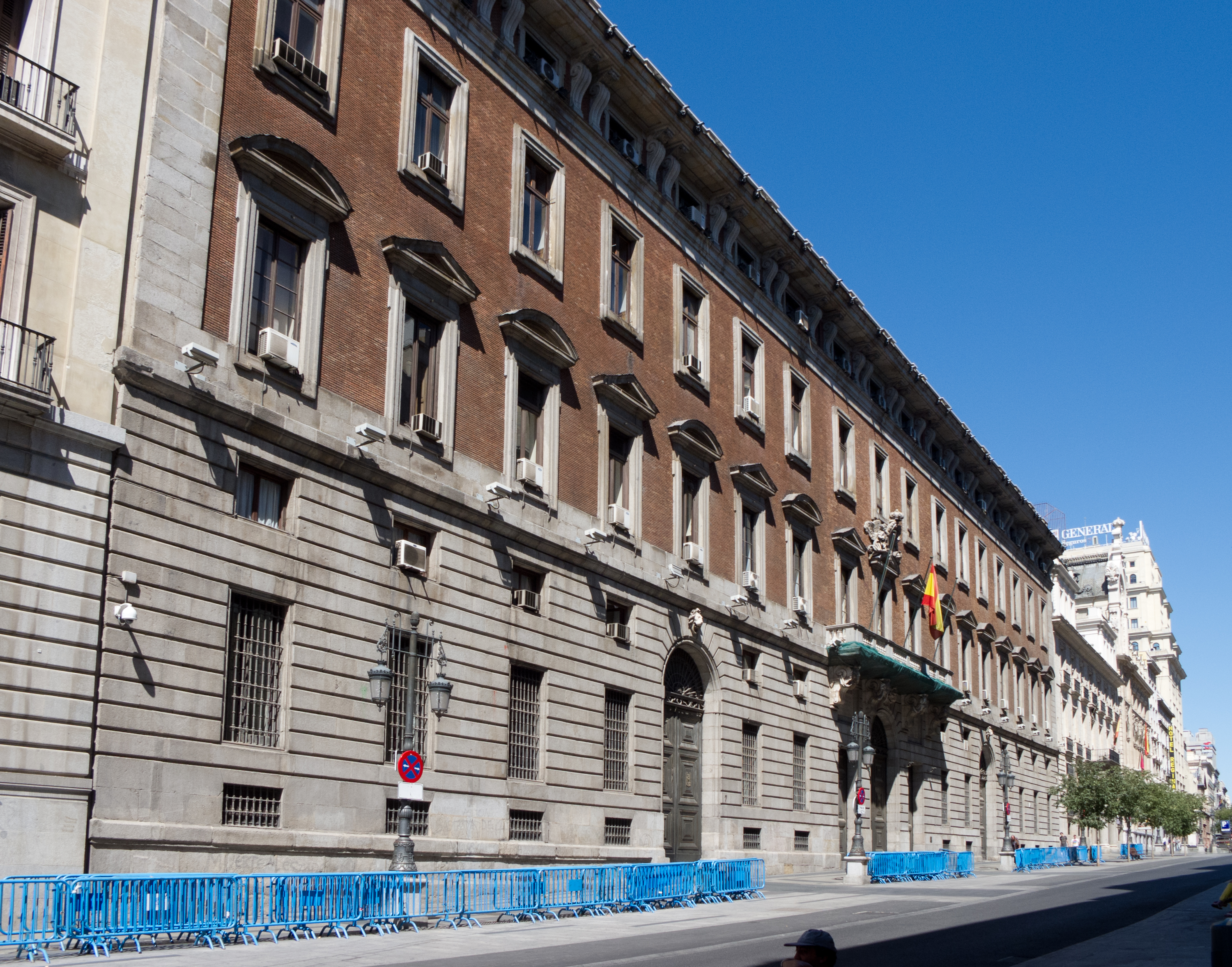 Real Casa de la Aduana, Madrid, Spain.